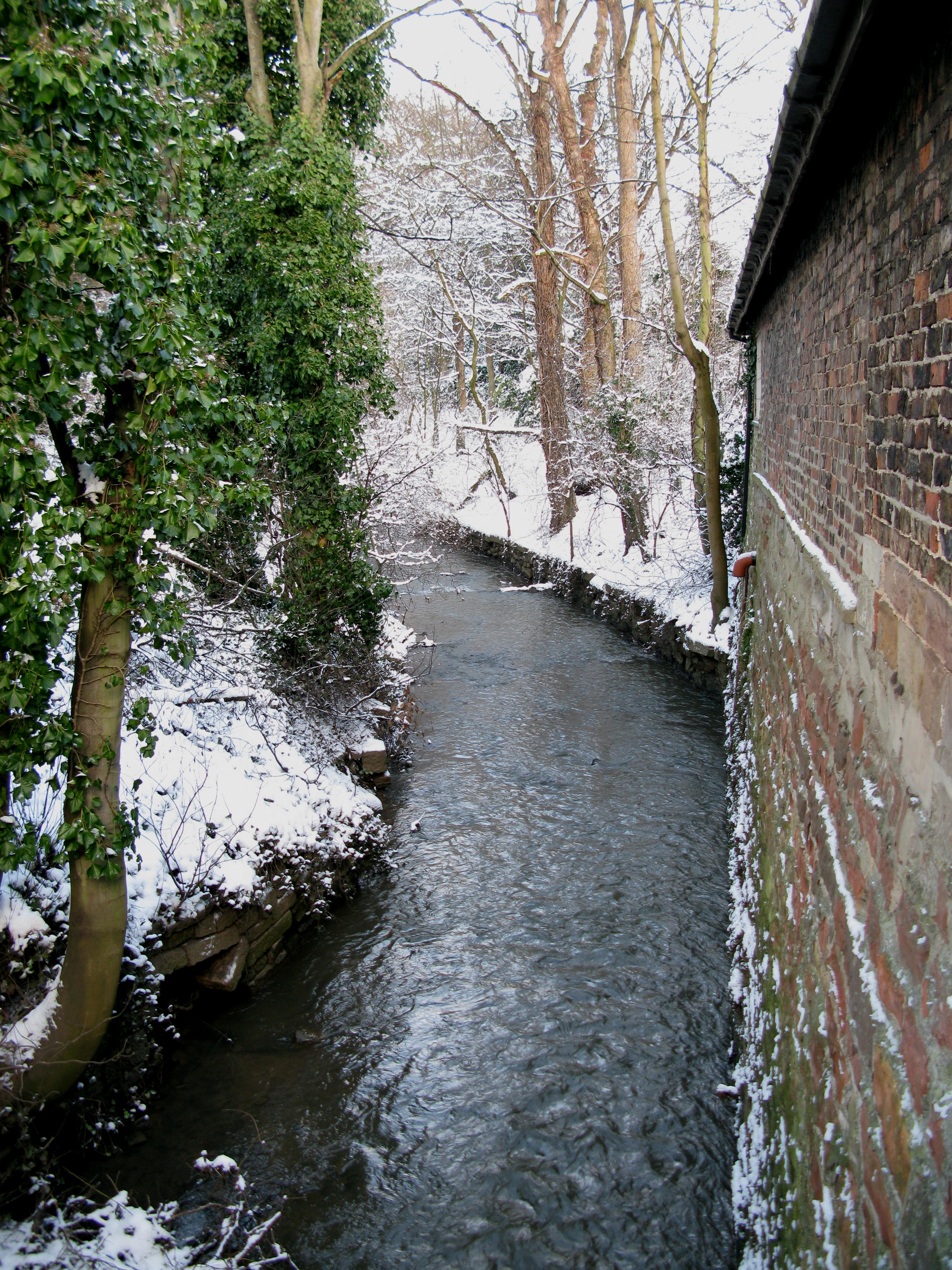 River Tutt Having just emerged from under Fishergate on its way to join the Ure. Alternatively named Fleet Beck further upstream.